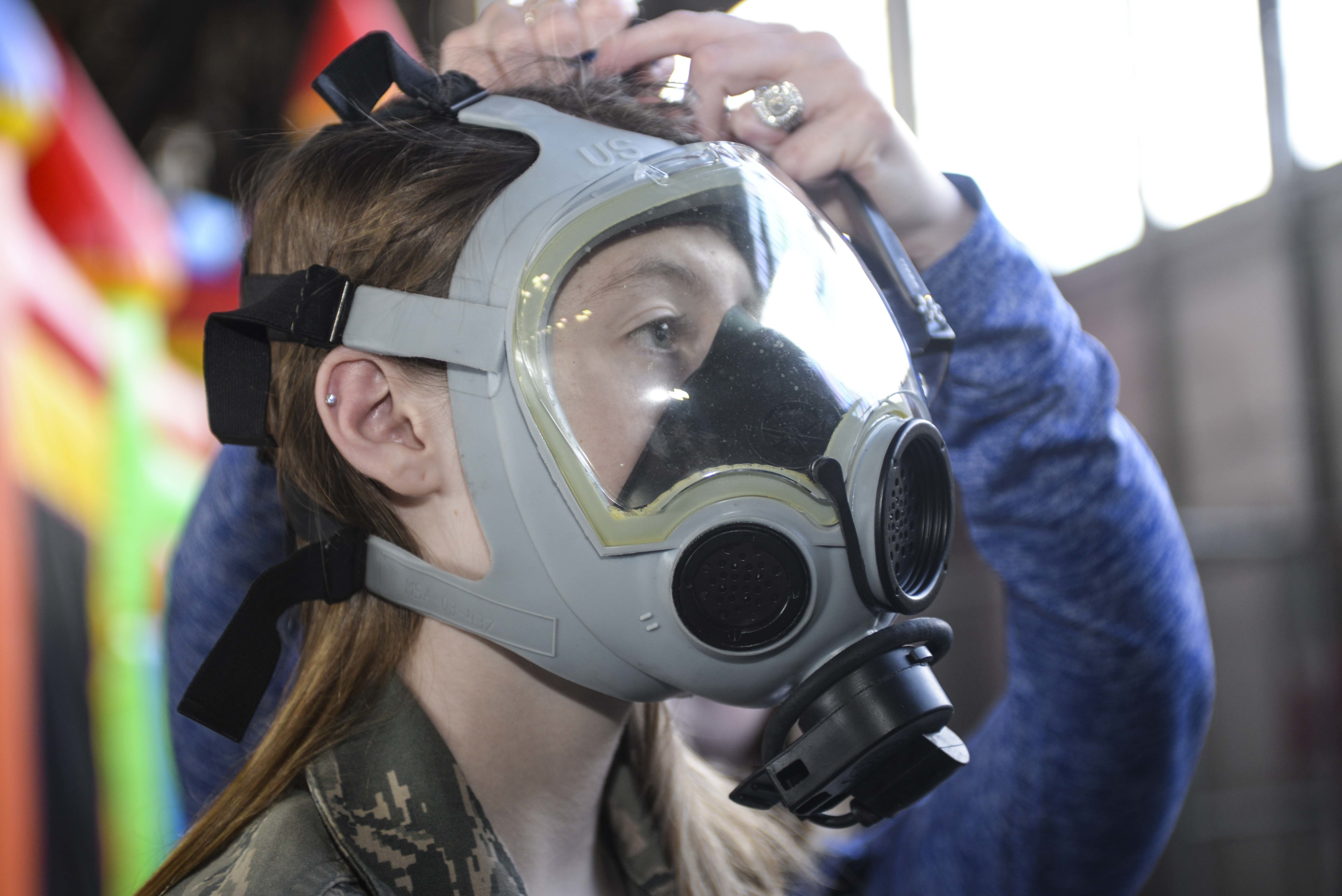 Caitlyn Parks, daughter of Master Sgt. Timothy Parks, 28th Civil Engineer Squadron heating, ventilation, air condition and refrigeration NCO in charge, dons a gas mask during the kids’ deployment line at Ellsworth Air Force Base, S.D., April 9, 2016. The event was hosted to commemorate military children and the sacrifices made while their parent(s) serve. (U.S. Air Force photo by Airman 1st Class Sadie Colbert/Released) Unit: 28th Bomb Wing Public Affairs